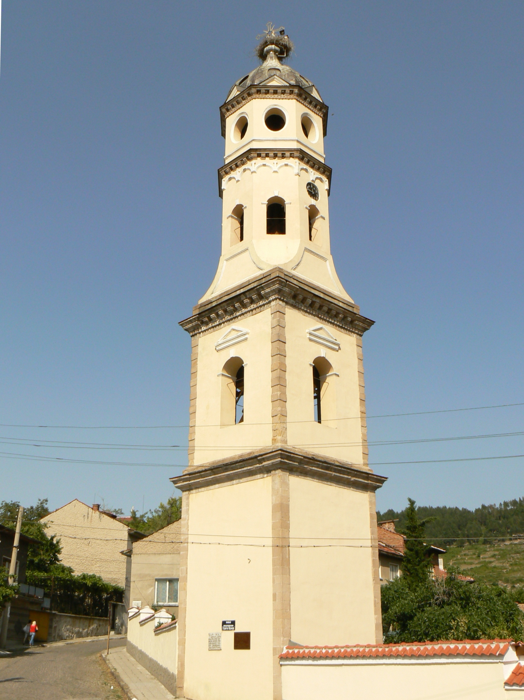 The belfry of church "St John Precursor" in Bratsigovo, Bulgaria. Built in 1884-1886 by master Ivan Dragov, this is the highest belfry on the Balkan Peninsula: 35 metres